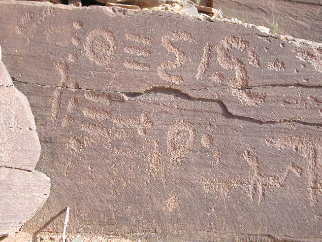 Prehistoric rock art, Libyco-berber inscriptions: Foum Chena/ Tinzouline - Zagora, valley of the River Draa, Morocco This is a transcription written in the Tifinaɣ character * Tifinagh